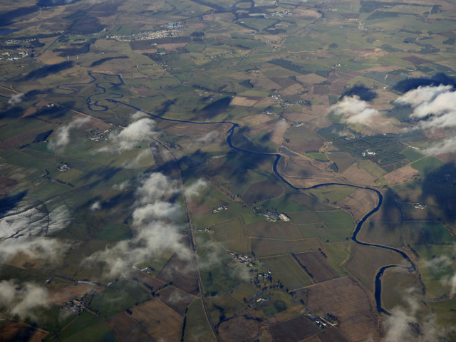 The Carstairs meanders from the air